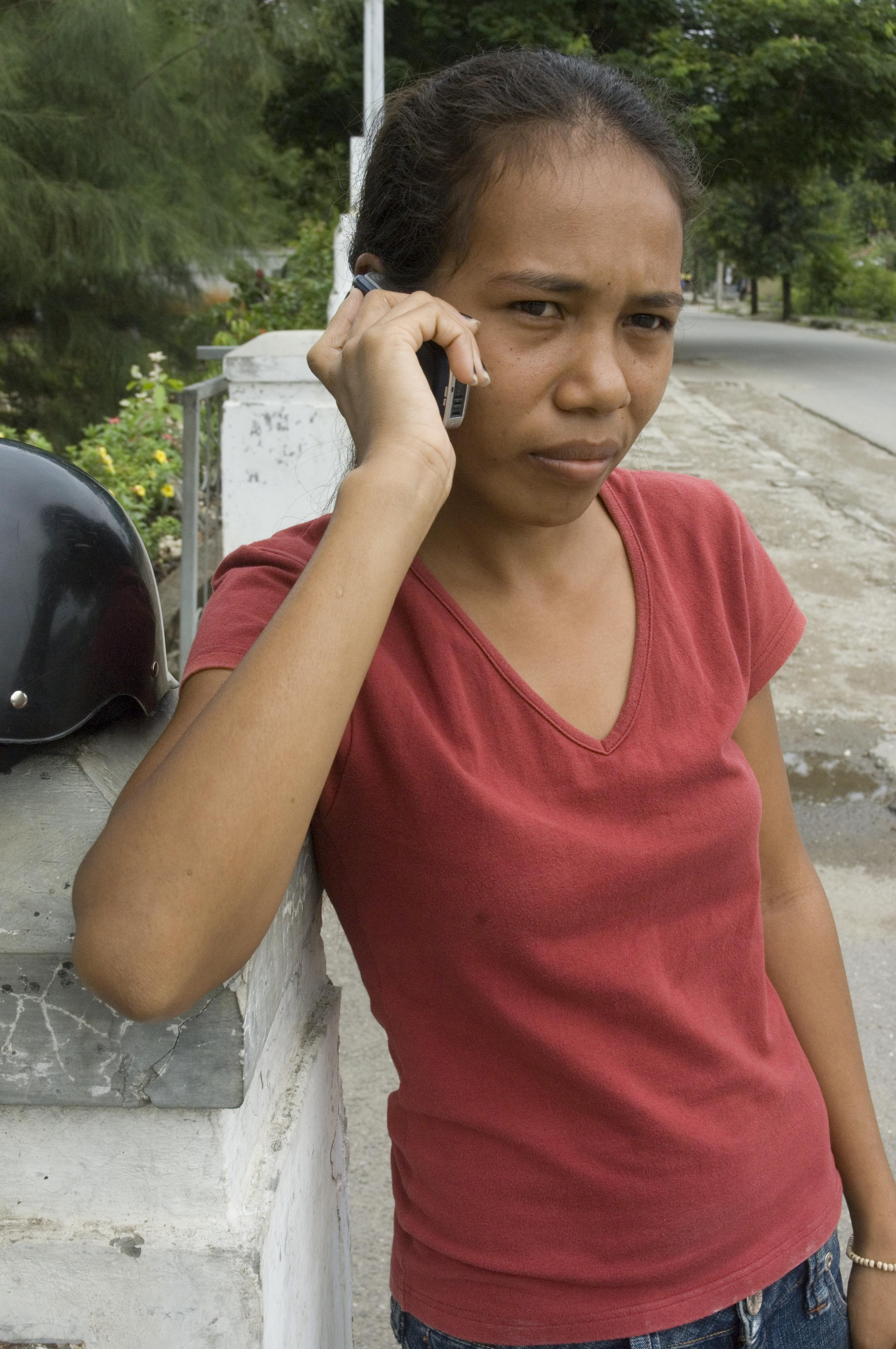 Mobile phone user, East Timor 2008.